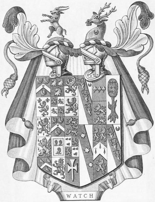 Arms of Charles I Lloyd (1597-) (15 quarters) of Dolobran, Montgomeryshire, impaling the arms of Stanley (6 quarters), for his wife Elizabeth Stanley, daughter of Thomas Stanley, son of Sir Edward Stanley, grandson of Sir Foulk Stanley and great-grandson of Sir Piers Stanley, whose father Sir Rowland Stanley was brother of Lord Strange of Knockyn, of Knockyn Shropshire, of the Stanley Earl of Derby family.(Burke's Genealogical and Heraldic History of the Landed Gentry, 15th Edition, ed. Pirie-Gordon, H., London, 1937) p.1392